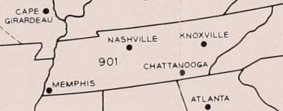 901 area code, as of 1952: the whole of Tennessee.